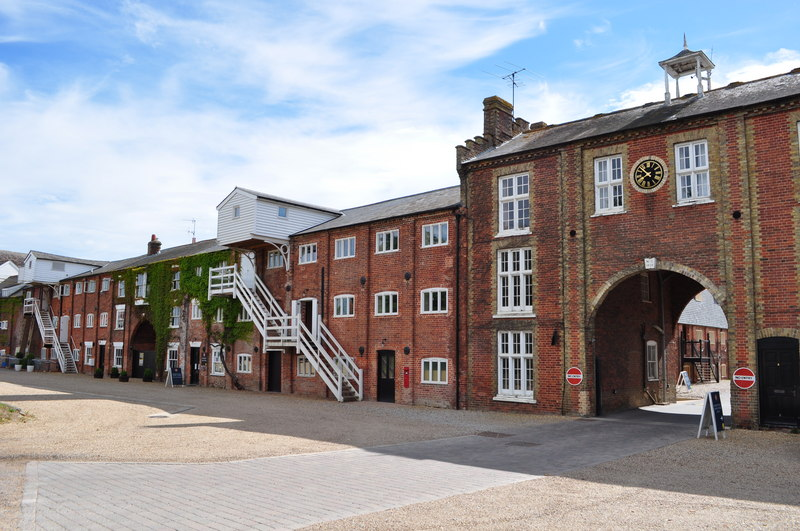 Snape Maltings, near to Snape, Suffolk, Great Britain. A view of the maltings in the morning, before the tourist flock. The archway nearest was where the Snape branch line entered the complex for goods loading. Link